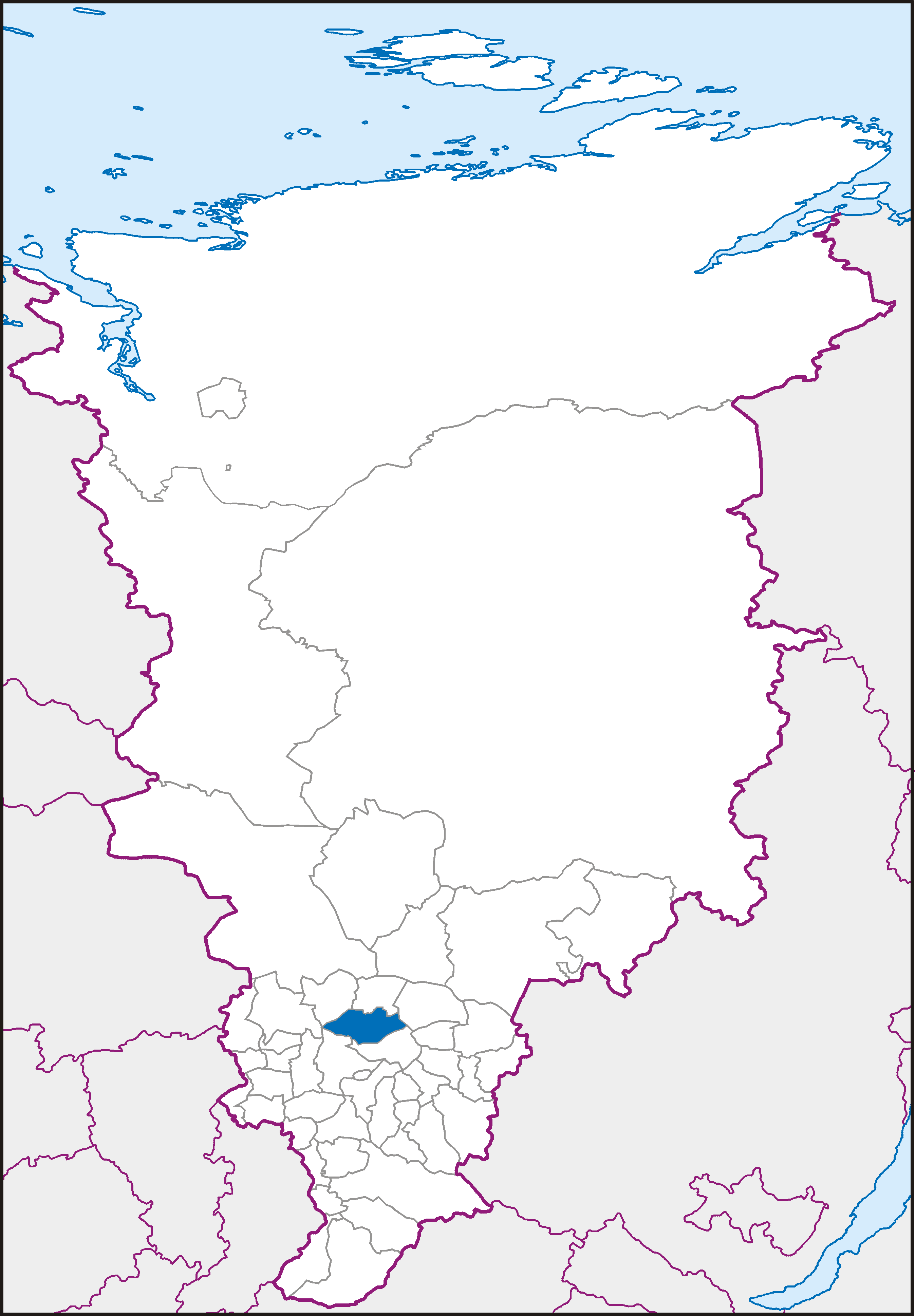 Map of Krasnoyarsk Krai in Albers Equal-Area Conic projection (Central Meridian = 95° E)